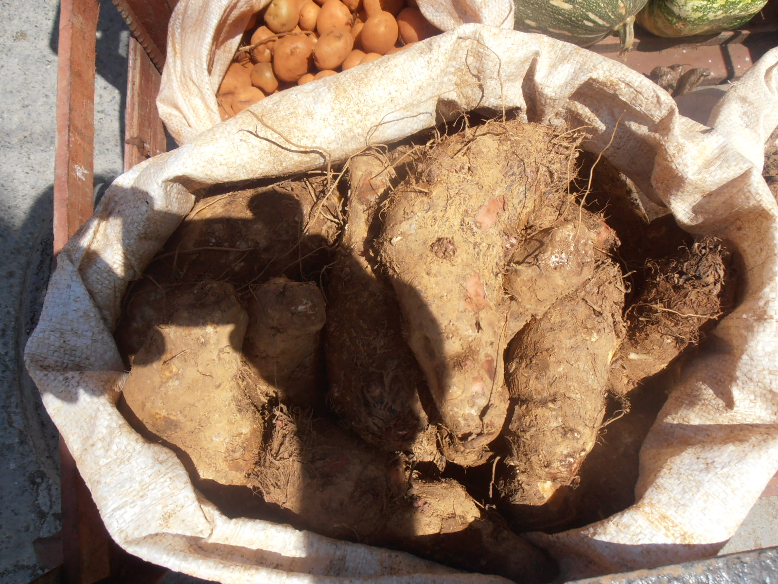 Root veges "Malanga" (Xanthosoma sagittifolium) in Cuba, together with potatoes and Melons. oops - spoiled by shadow of photographer...